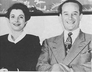 Mrs. Vilanova and President Arbenz in 1940